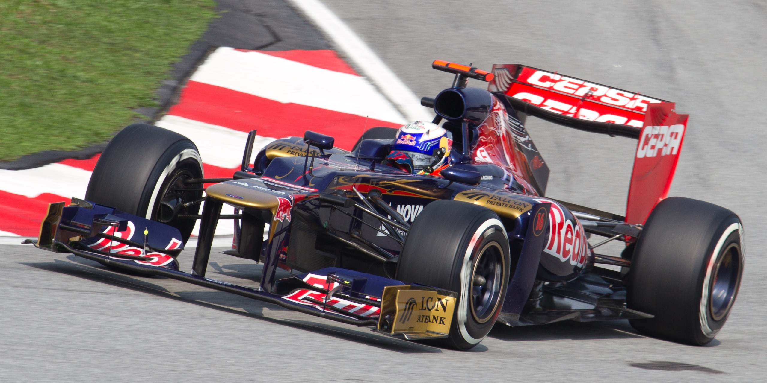 Formula One 2012 Rd.2 Malaysian GP: Daniel Ricciardo (Toro Rosso) during the qualify session on Saturday.